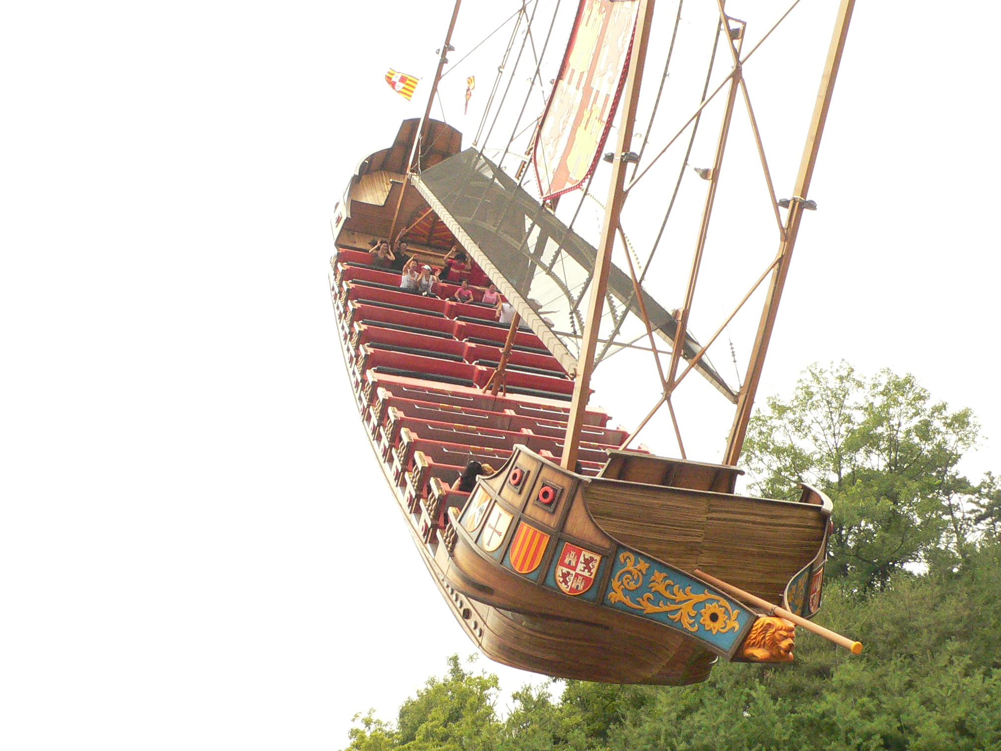 Everland, the biggest theme park of South Korea located in Yongin, Gyeonggi Province.